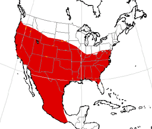 Fossil range of Merychippus